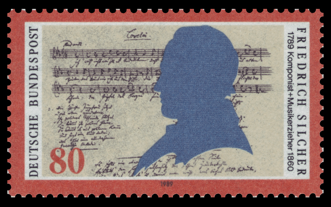 200. day of birth of Friedrich Silcher (1789—1860)